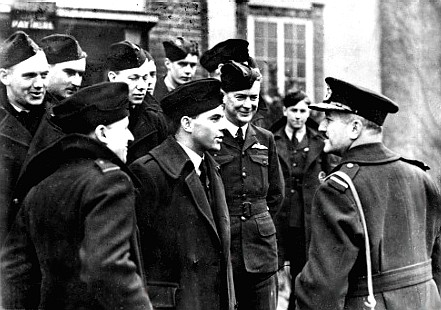 AWM caption: 1941-04. Empire Airmen arrive in England. Air Commodore Mcnamara V.C. of the RAAF meets the Australian boys on arrival.